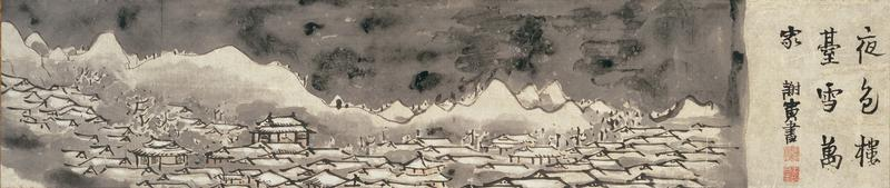 Snowclad houses in the night (紙本墨画淡彩夜色楼台図, shihonbokuga tansai yashoku rōdaizu). Hanging scroll, ink and light color on paper, 27.9 cm × 130.0 cm (11.0 in × 51.2 in). The scroll has been designated as National Treasure of Japan in the category paintings.